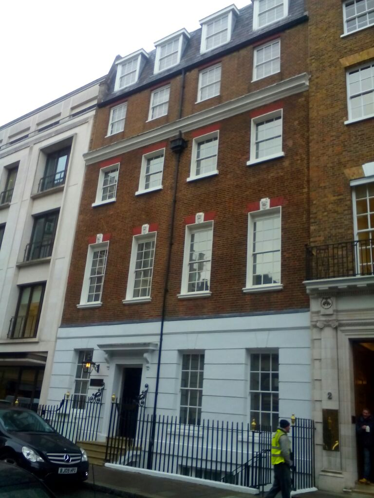 Pictured by me during visit to London in January 2015